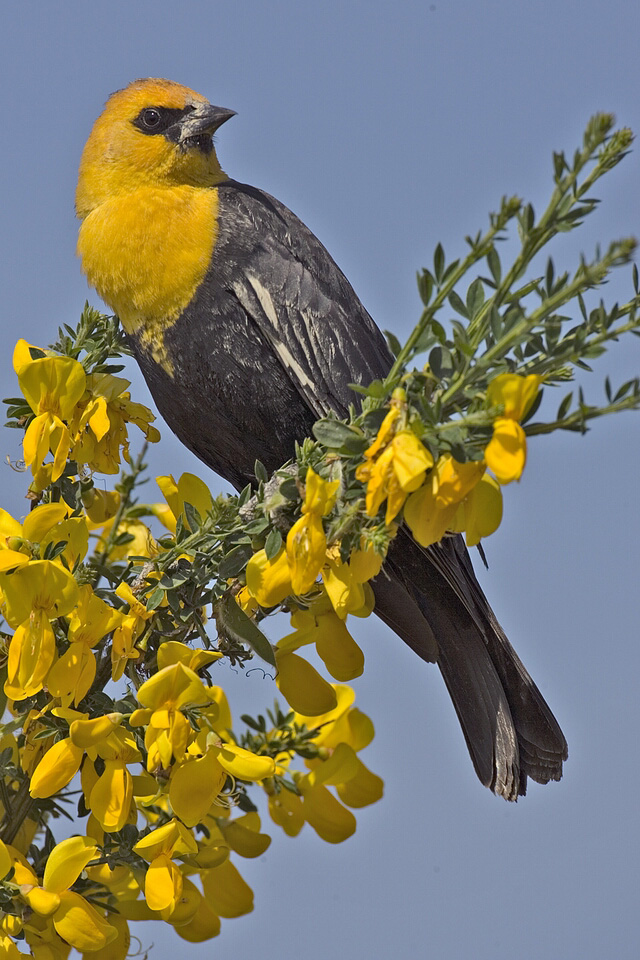 Yellow Headed Blackbird